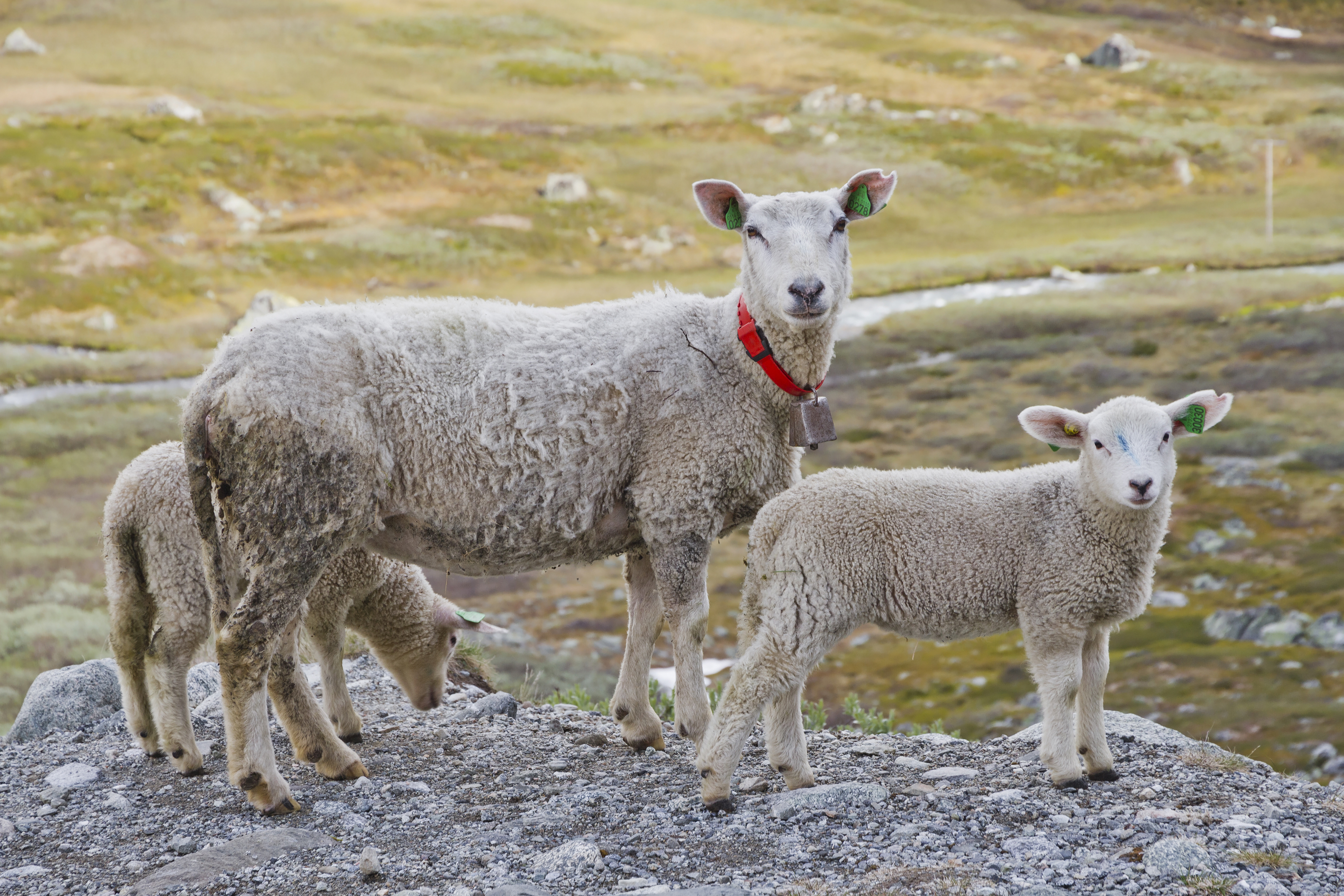 A sheep (Ovis aries) with a couple of lambs in Breidsæterdalen, Lom municipality, Oppland, Norway in 2013 June.